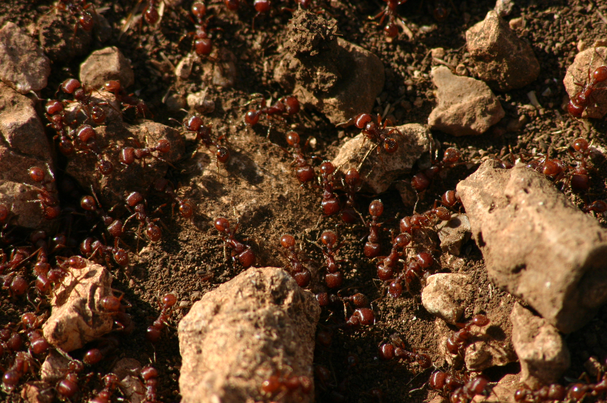 (Solenopsis invicta) This photo shows a colony of reddish brown ants.